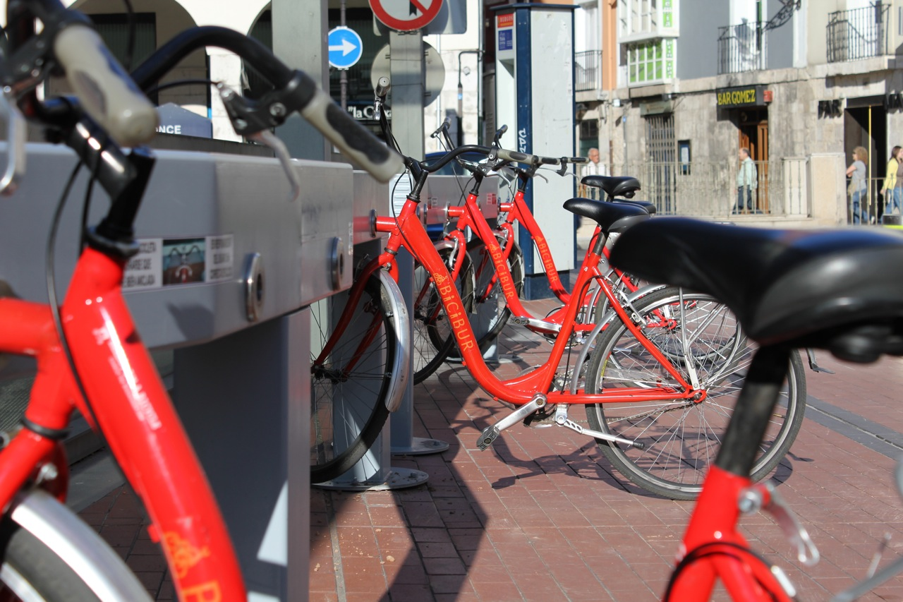 BiciBur: Free city-wide bike loan service in Burgos